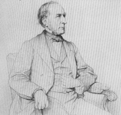 Ludovic Vitet (french politcs) drawn bay H. Lehmann in 1864